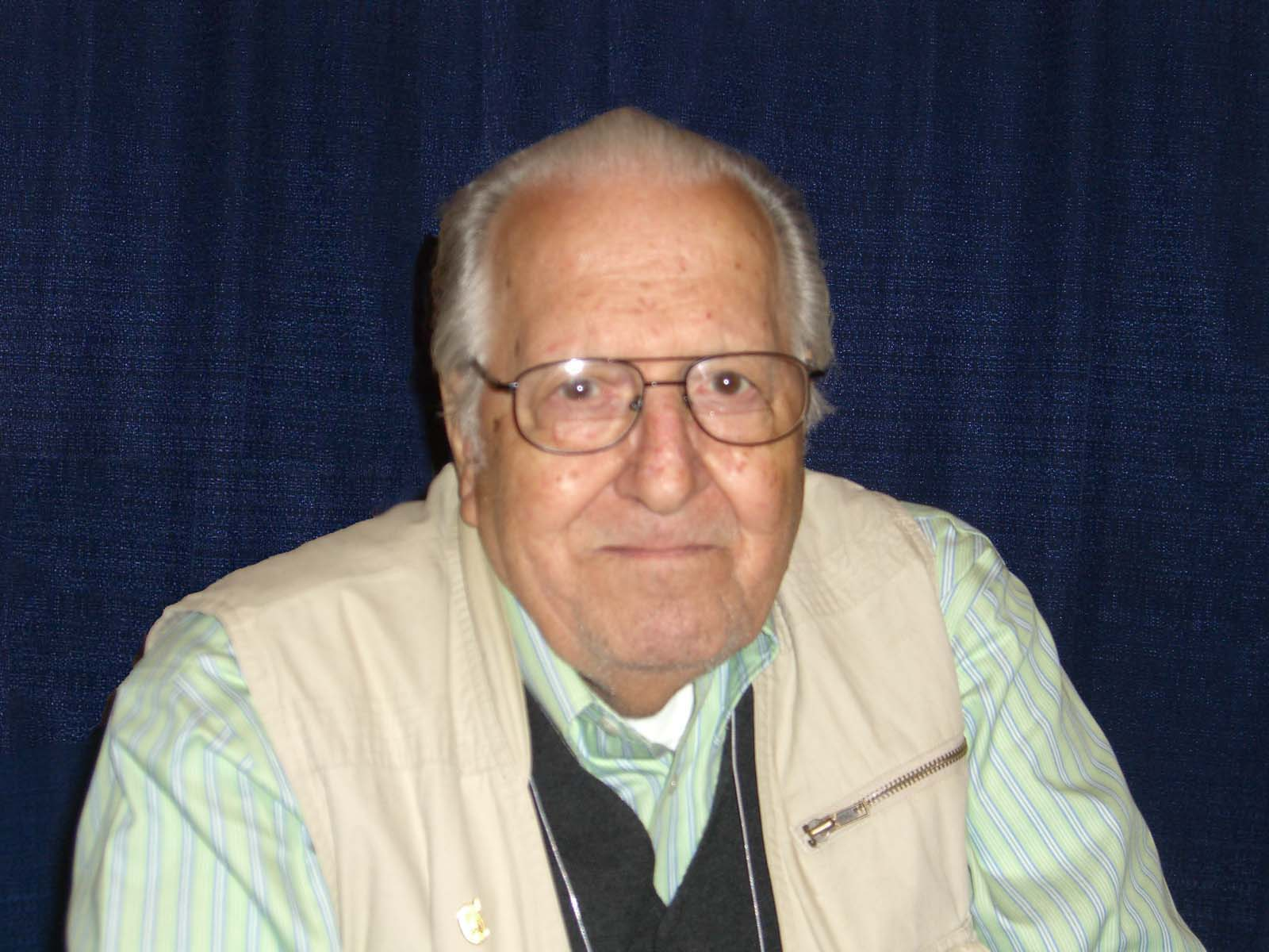 Comics creator Nick Cardy at the New York Comic Convention in Manhattan, April 20, 2008. This photo was created by Luigi Novi. It is not in the public domain, and use of this file outside of the licensing terms is a copyright violation.